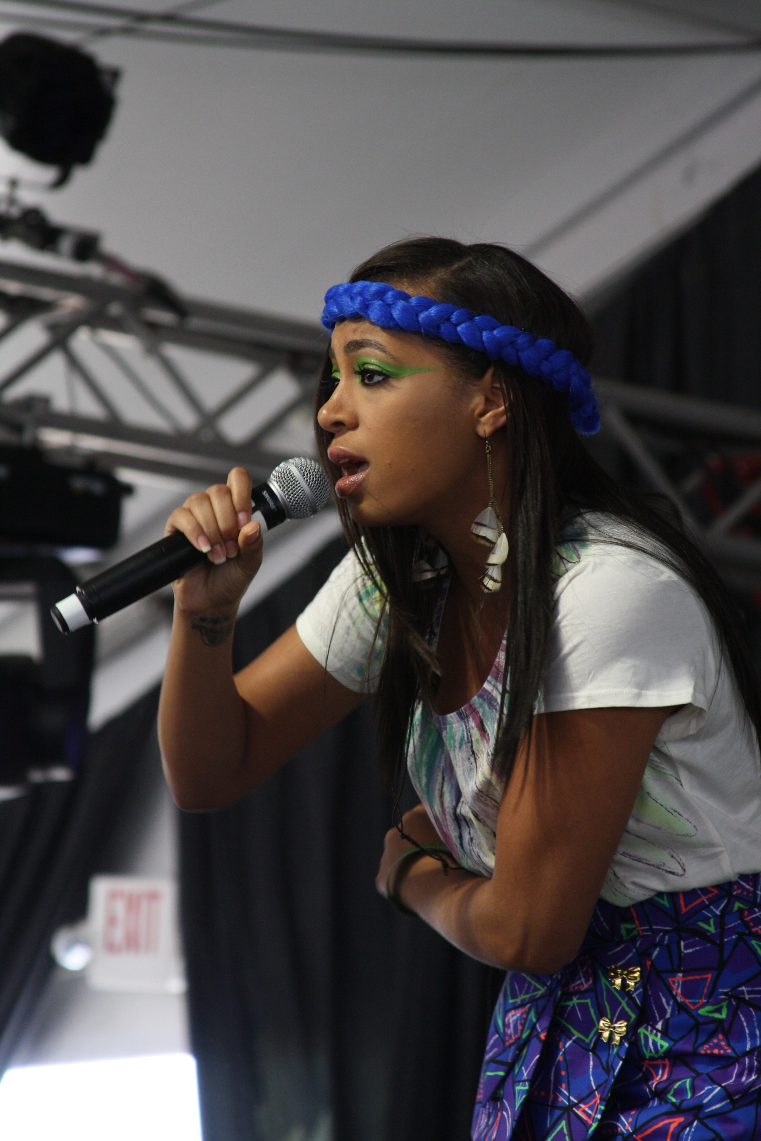 Solange Knowles performing at South by Southwest on March 18, 2009 in Austin, Texas.